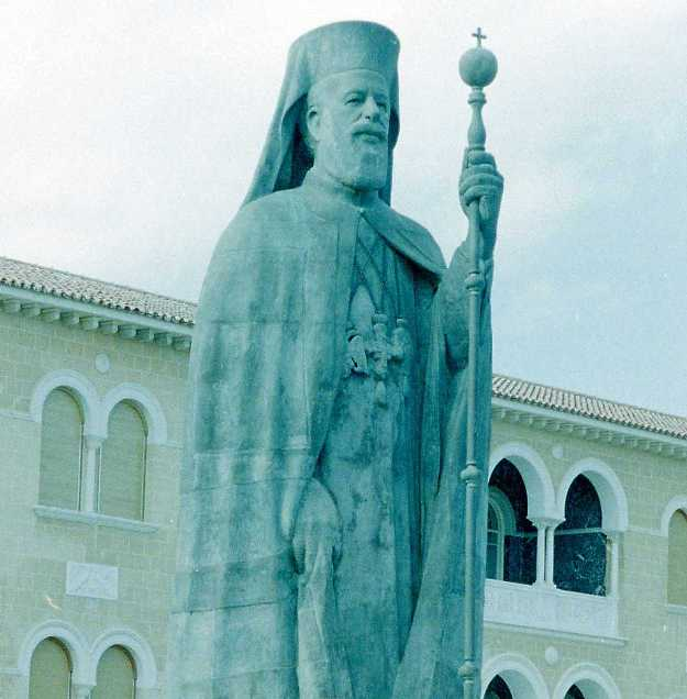 The Makarios statue was 2009 to Kykkos Monastery (Troodos-Mountains) removed.